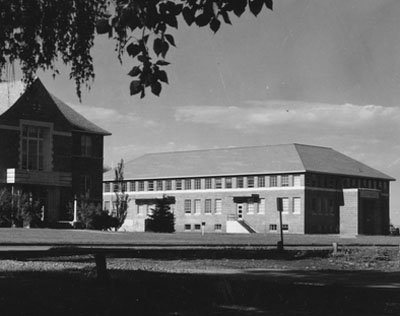 A 1950 photograph of the Montana State University Library.